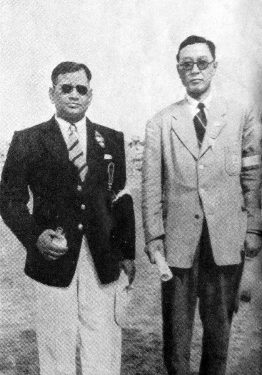 Jagat Kanta Seal along with a Japanese co-referee, in the first Asian Games in Delhi held in 1951